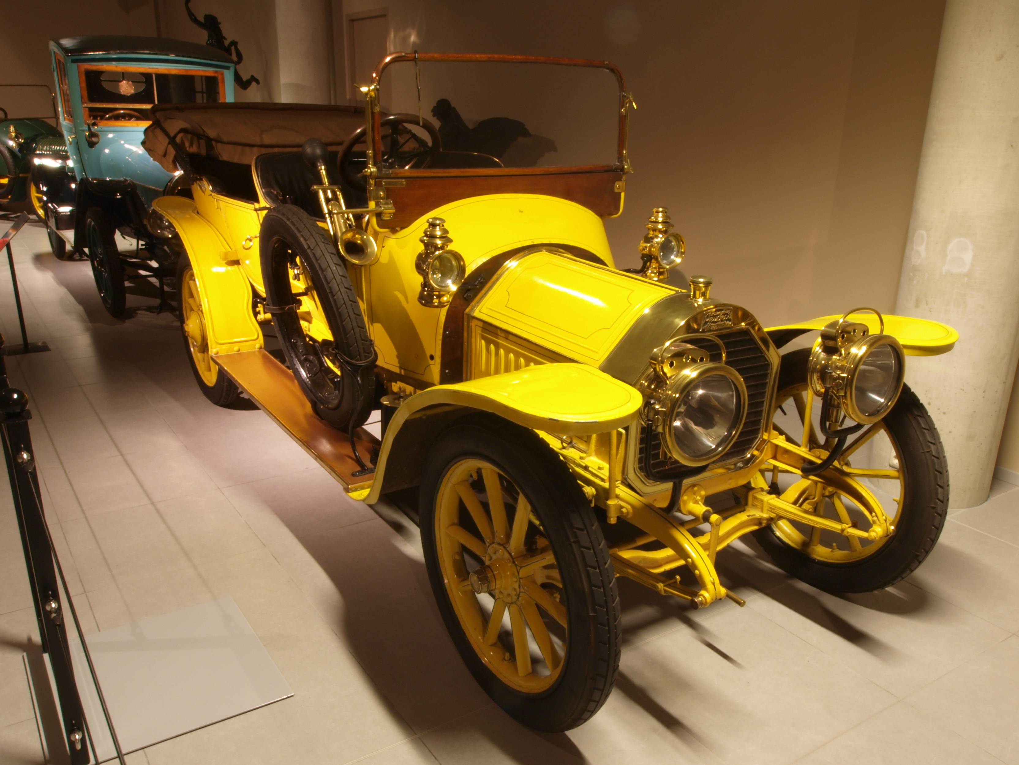 1910 Peugeot Type 126 12/15-HP Touring. Photographed at the Louwman museum, The Netherlands.